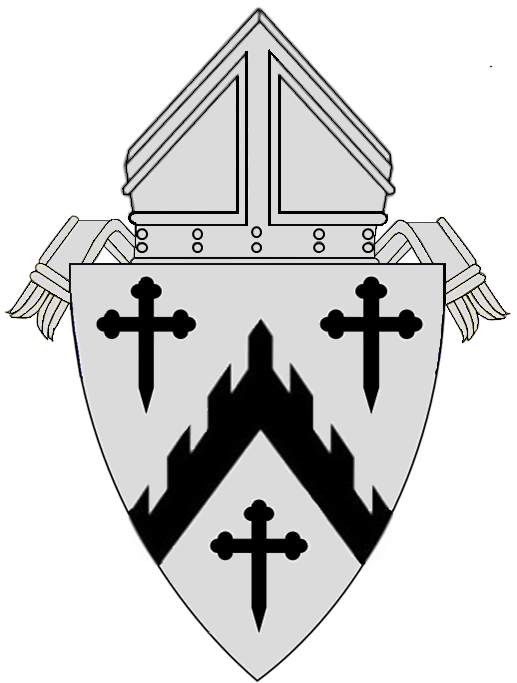 The coat of arms of the Catholic Diocese of Davenport, Iowa, USA. The following Commons images were used to create this image: File:Roman Catholic Diocese of Erie.svg by Niagara (talk · contribs) File:Orthodox cross.svg by Bashar Khallouf (talk · contribs) File:Croix recroisetée au pied fiché.svg by Darkbob (talk · contribs)